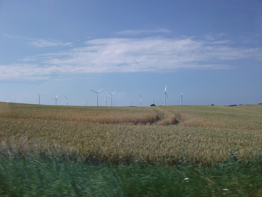 Wind turbine near Kisielice